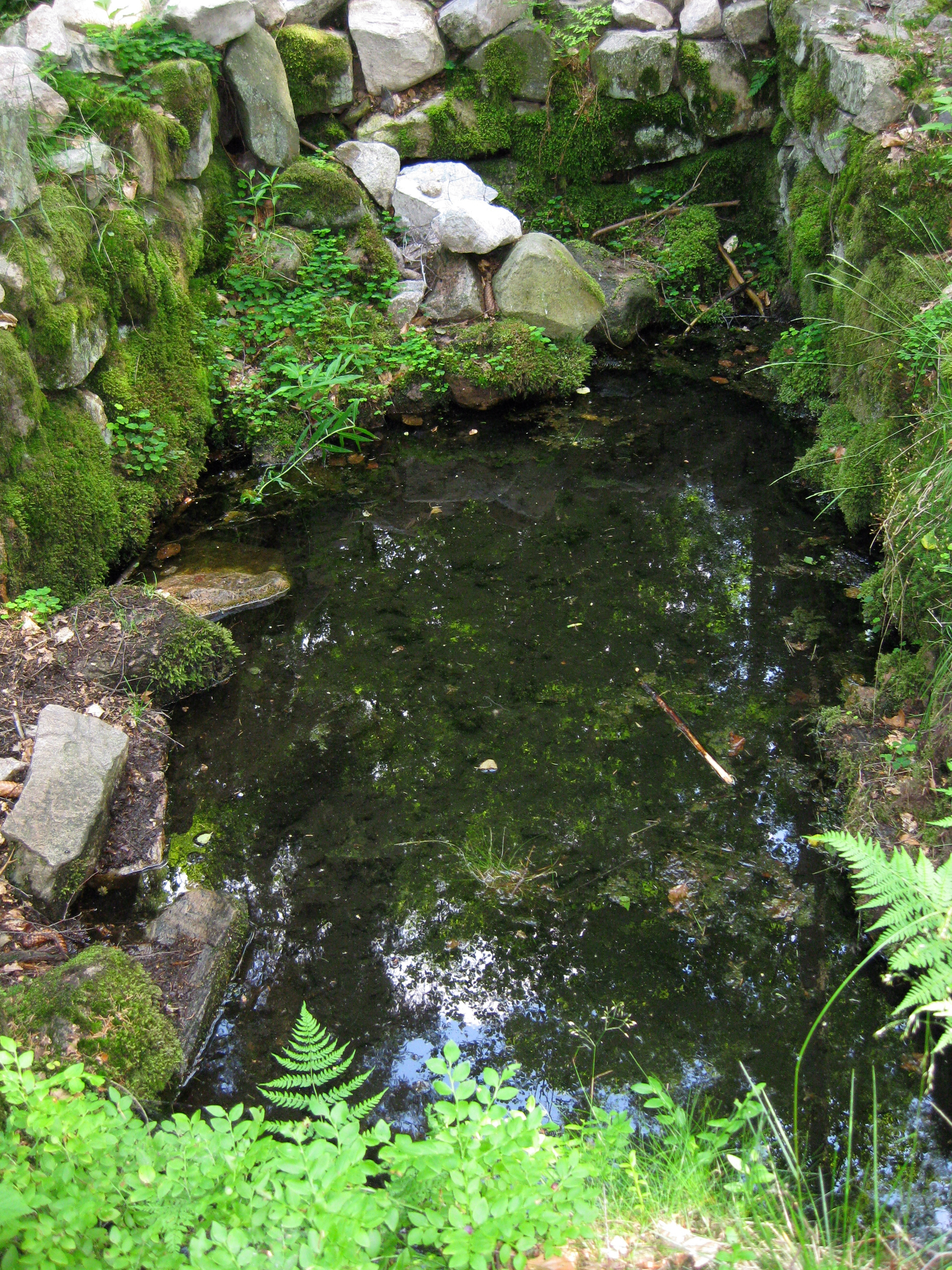 Onsvalakällan in Höör municipality